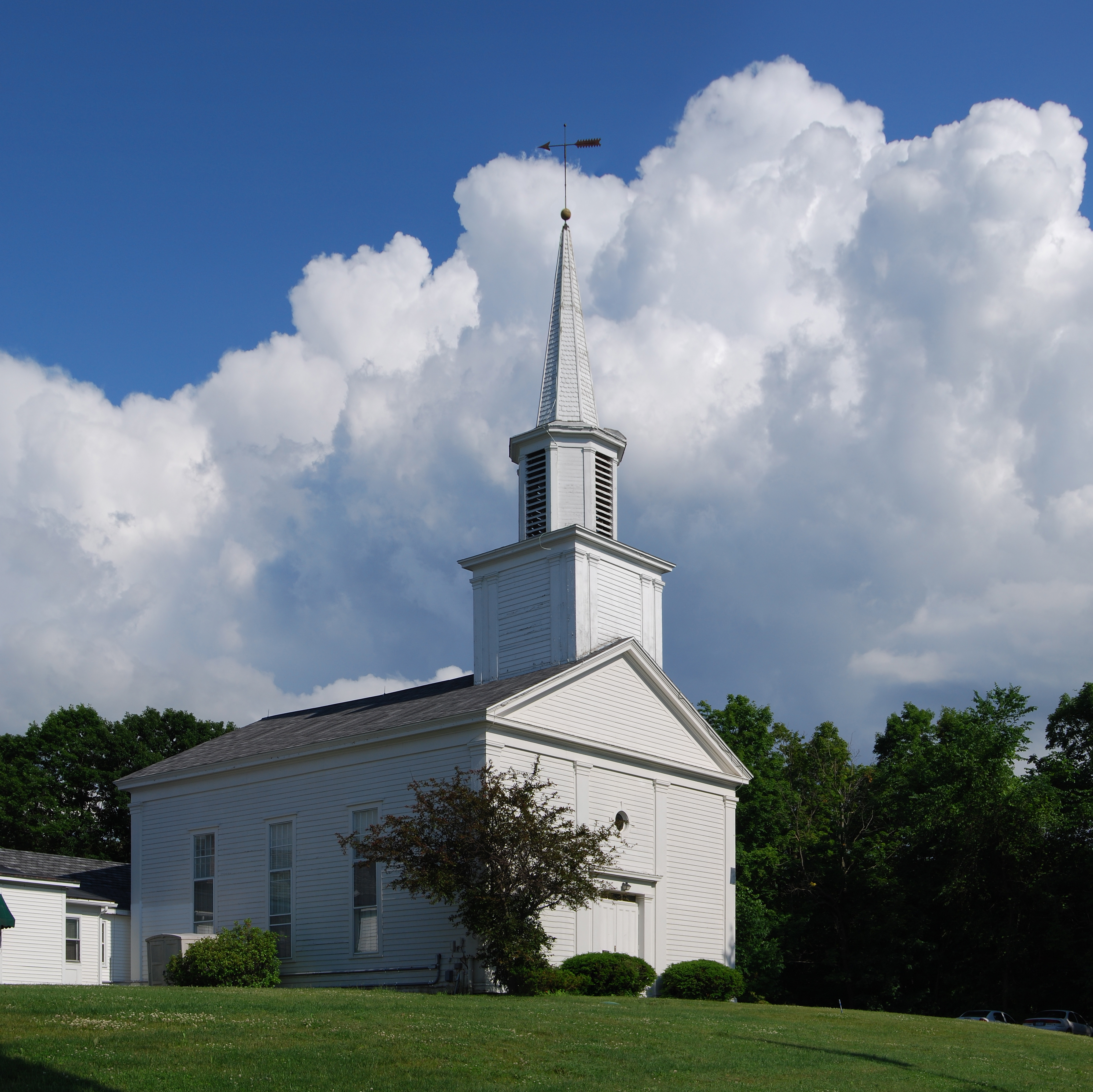 Brunswick Church (Presbyterian), known locally as the "White Church", located in Brunswick, New York, United States